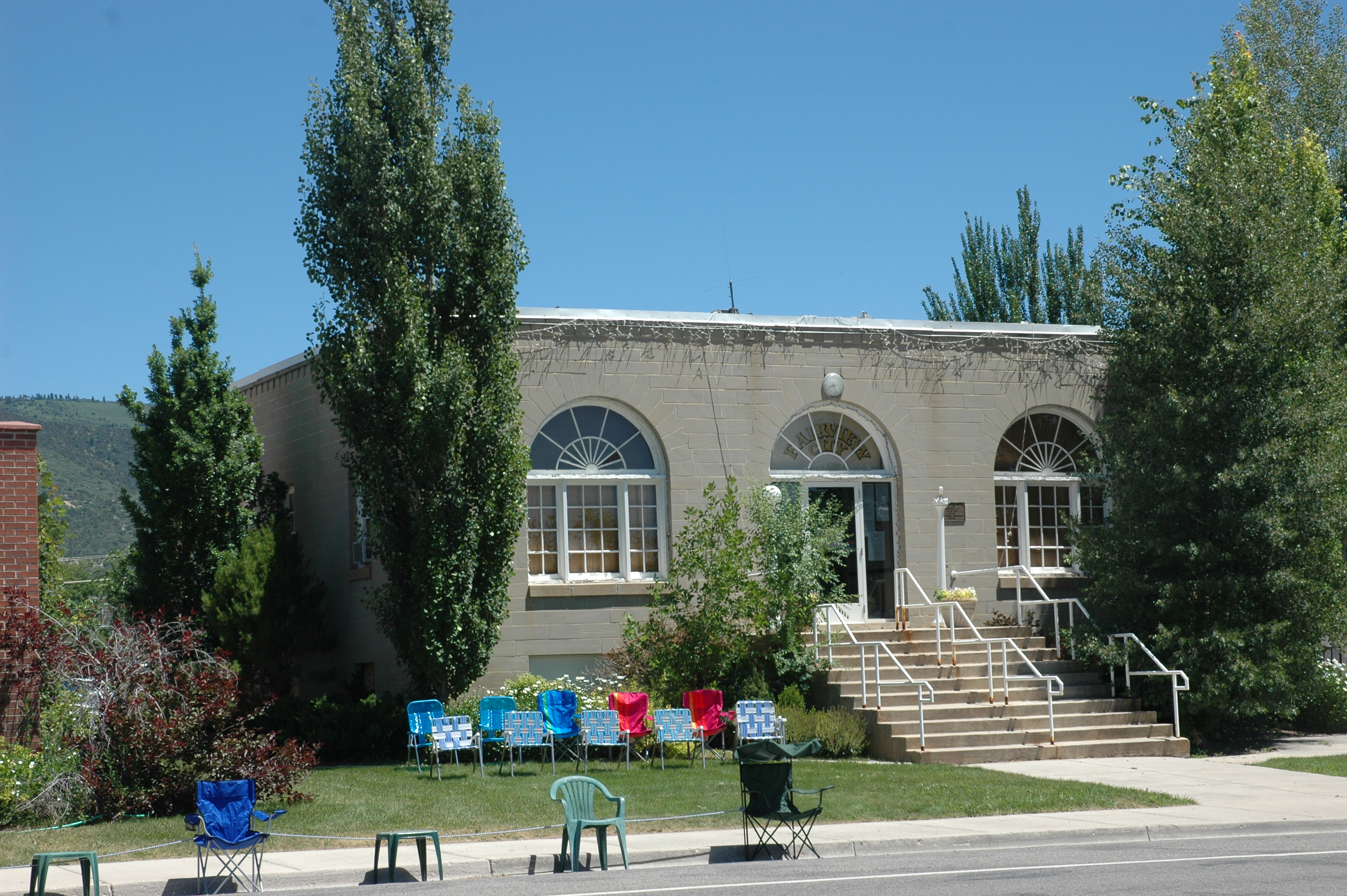 Fairview City Hall, a historic building in Fairview, Utah, United States.